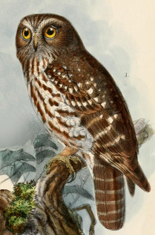 Ninox fusca = Ninox boobook fusca, Timor Boobook